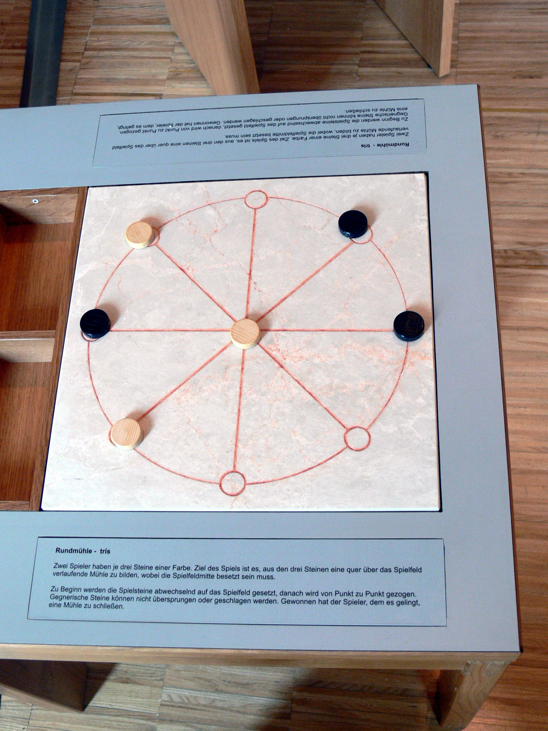 Museum Quintana - Roman department. Ancient Roman round Morris game.